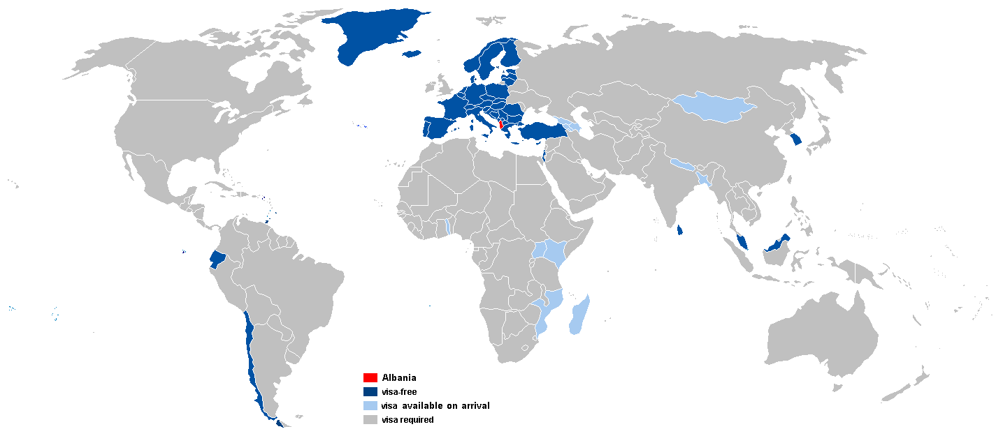 Albanian visa free expected in 2010